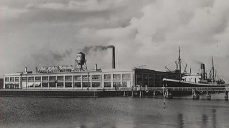 Ford Motor Company assembly plant in Sydhavnen, Copenhagen, Denmark